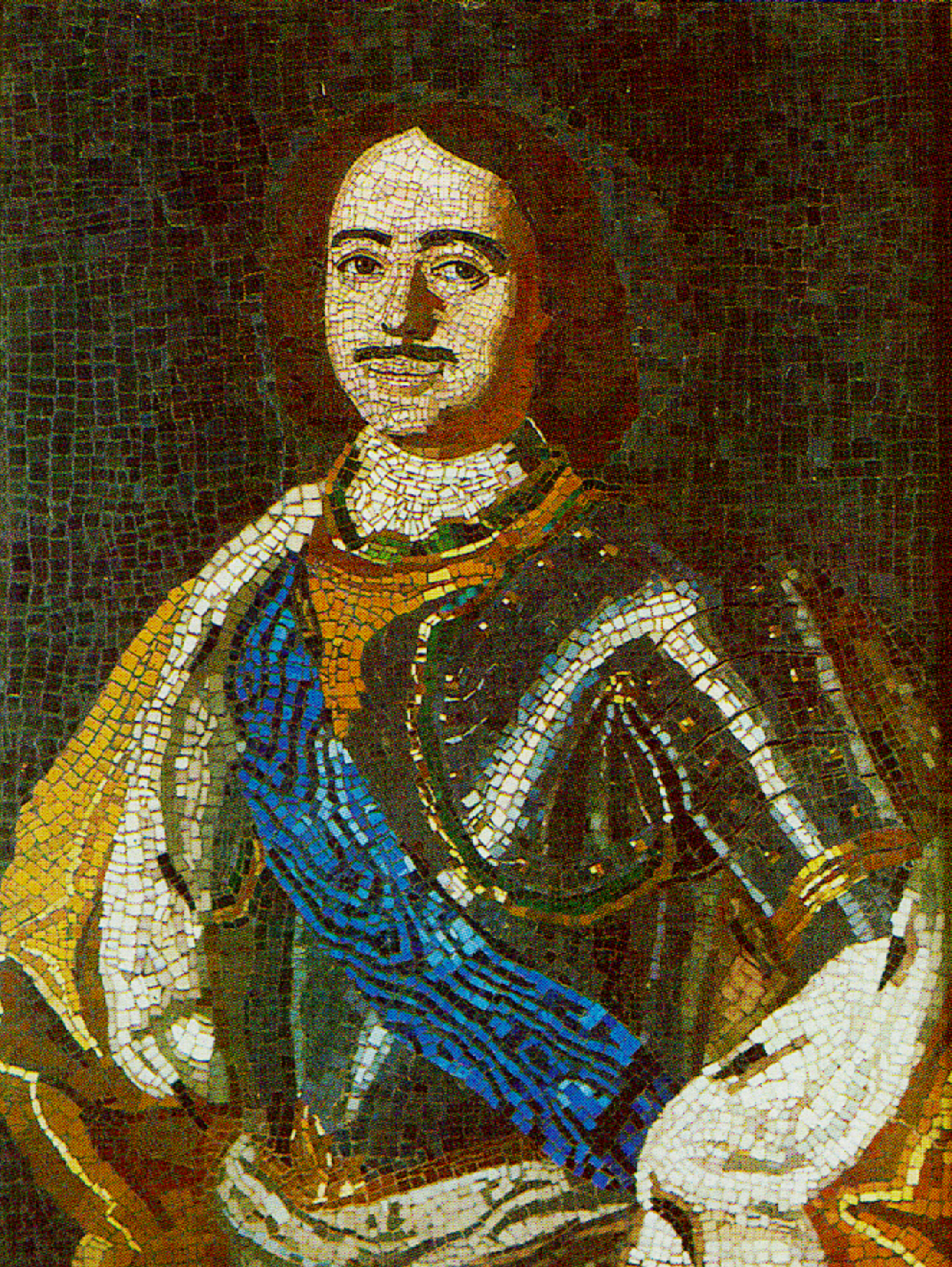 Portrait of Peter I. Mosaic. Done by M. Lomonosov. 1754. Ust-Ruditsa Factory.